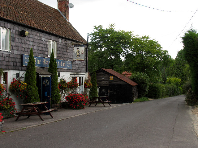 Country Road near Enborne. This square is mostly residential and this road links Woolton Hill with Enborne via residential area.